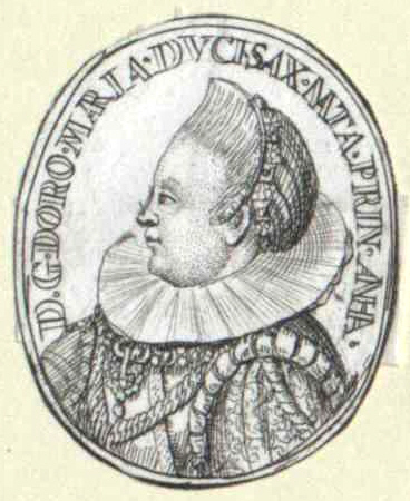 Dorothea Maria von Anhalt (1574–1617)